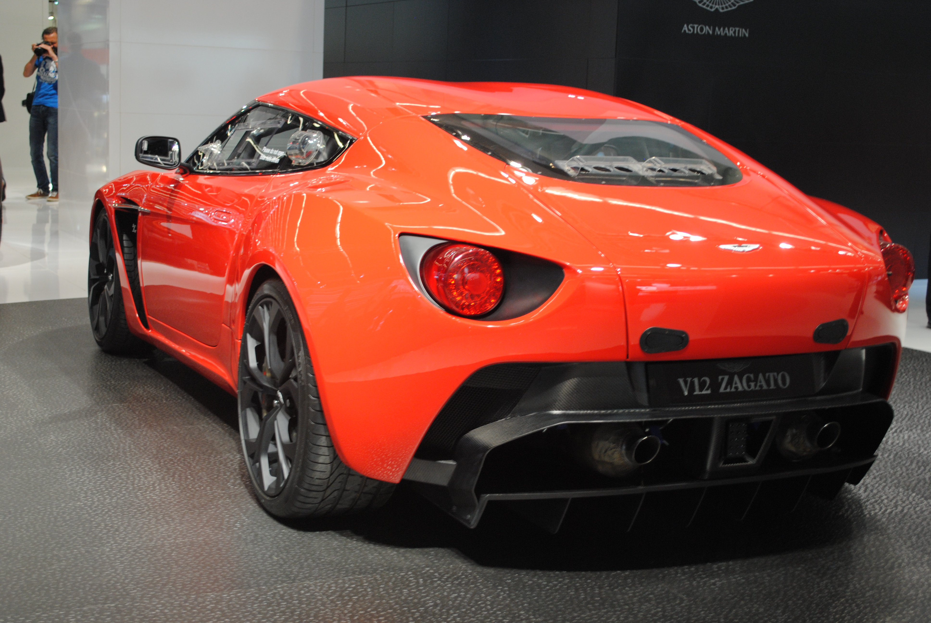 For more info + images, please check